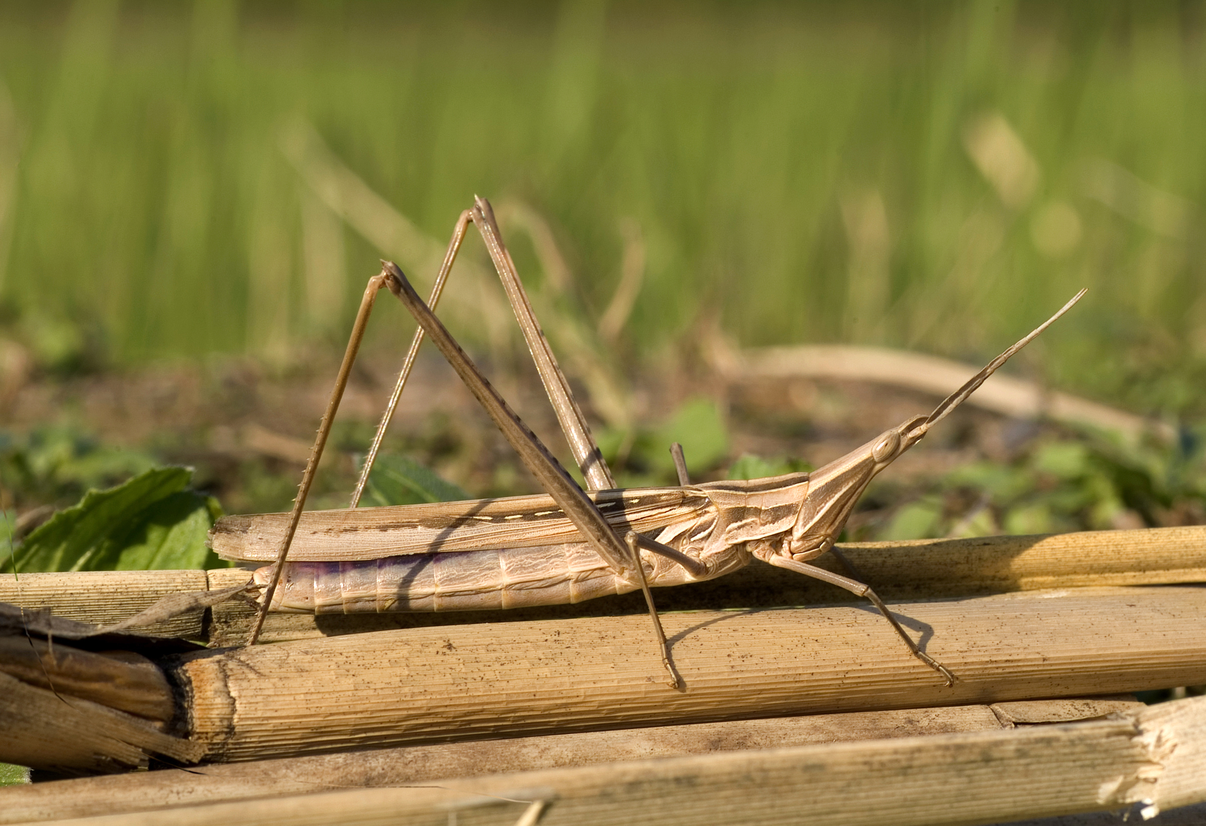 Oriental longheaded locust female scientific name: Acrida cinerea